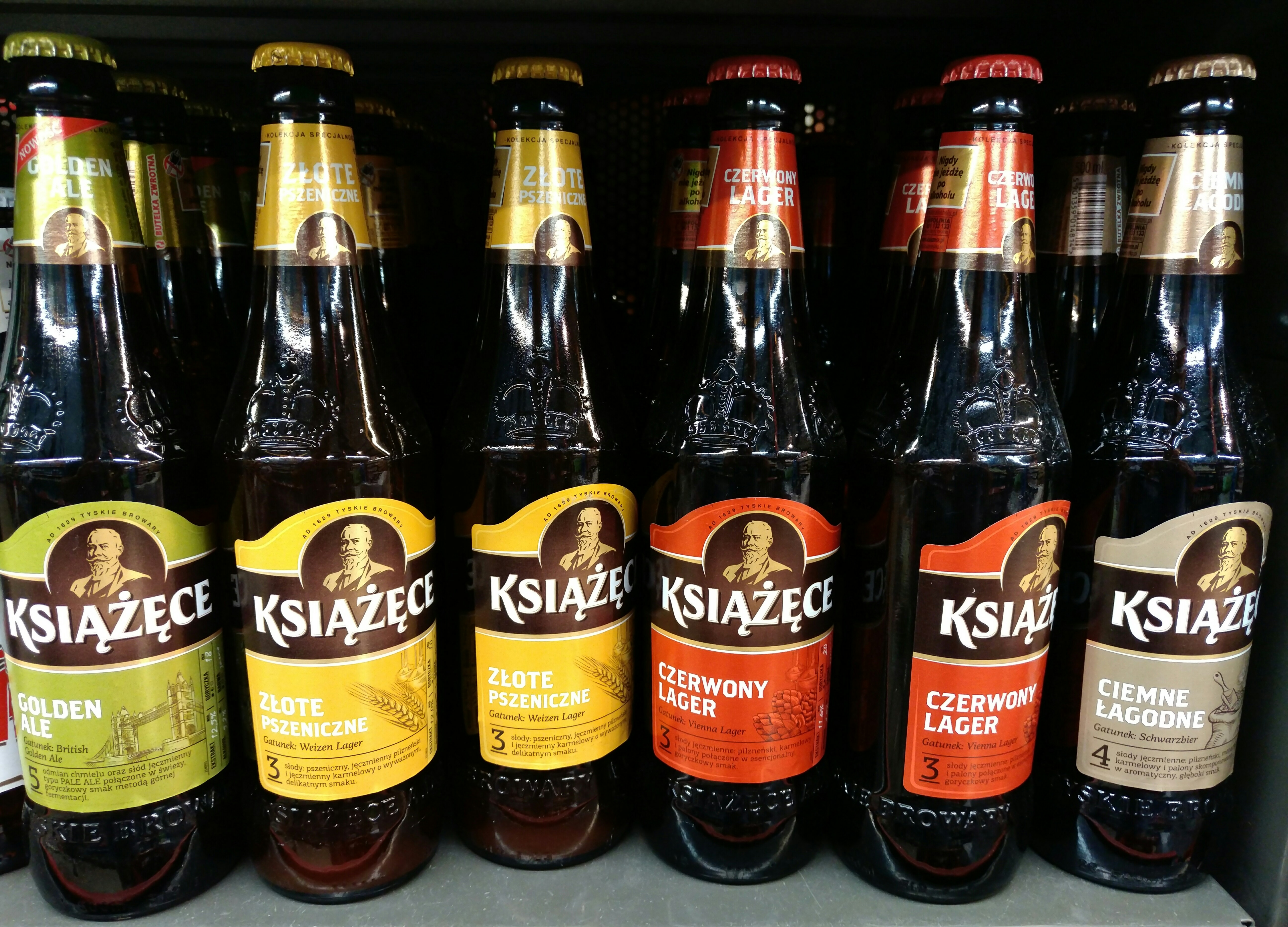 Książęce beer bottles